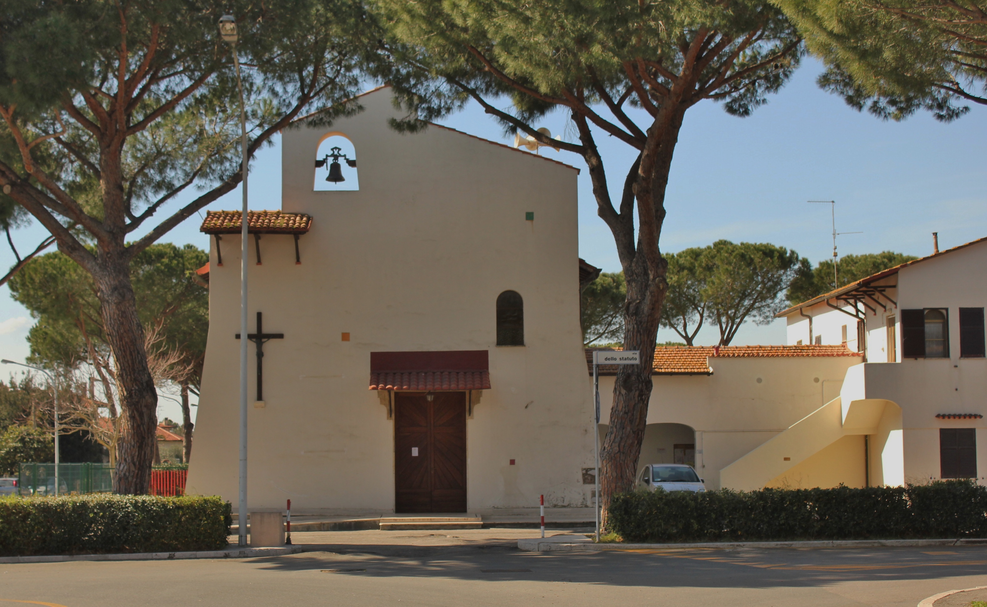 Church of Santa Maria Goretti in Rispescia, Grosseto